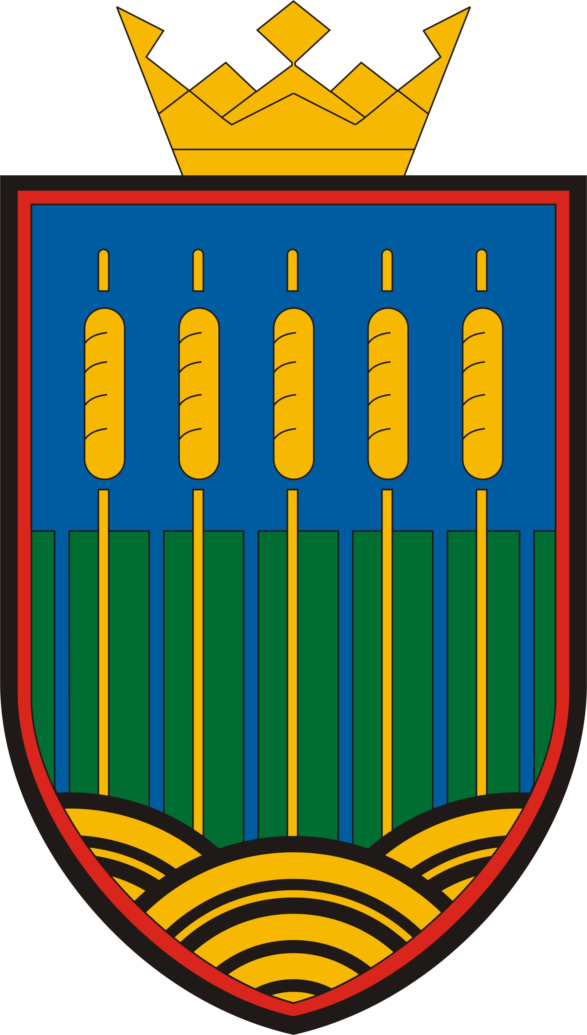 Coat of arms of Fülöpháza, Hungary